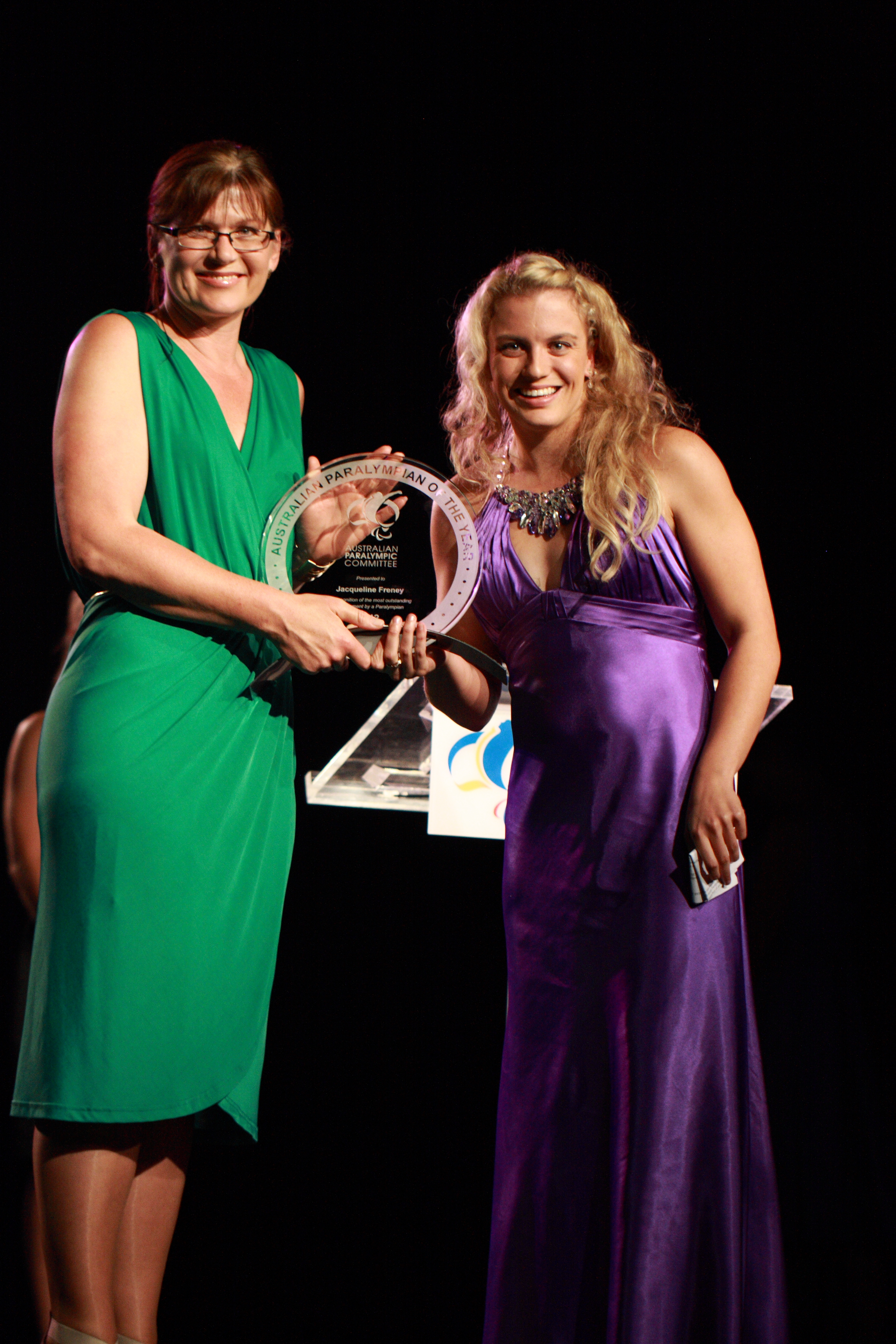 Senator Kate Lundy awards Jacqueline Freney 2012 Australian Paralympian of the Year, in a ceremony at the Hordern Pavilion, Sydney.